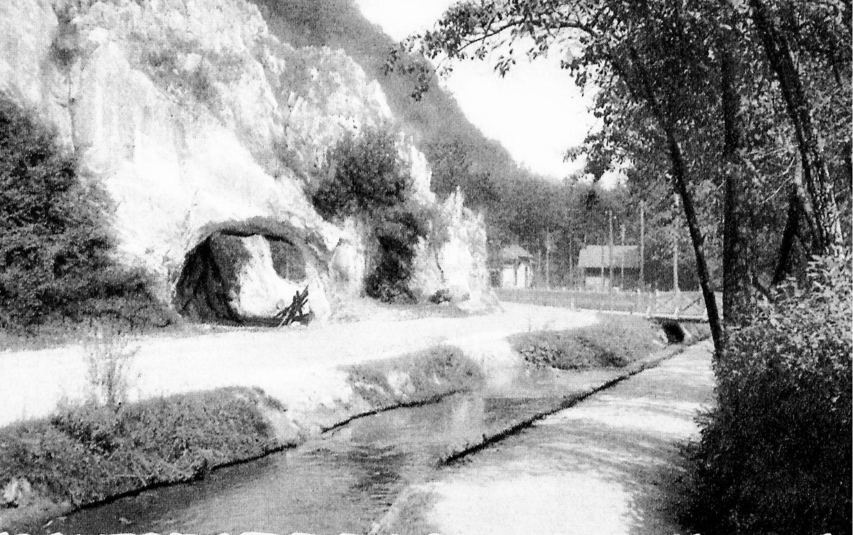 The "upper" Lillafüred tunnel in 1930, Lillafüred, Hungary